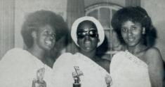 Brown Sugar in 1977 receiving one of many awards